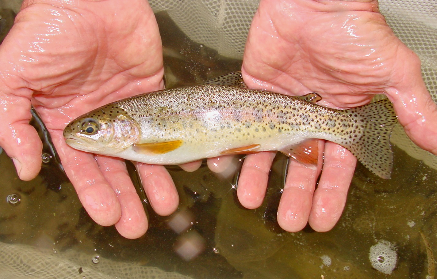 A wild rainbow trout taken from the Esopus Creek in |Ulster County, NY, USA, during a study.